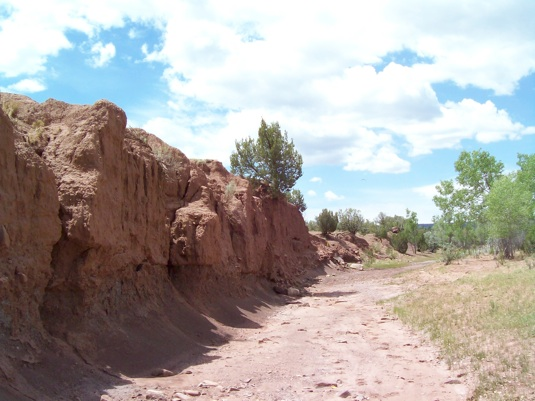 An arroyo in San Miguel County, New Mexico.